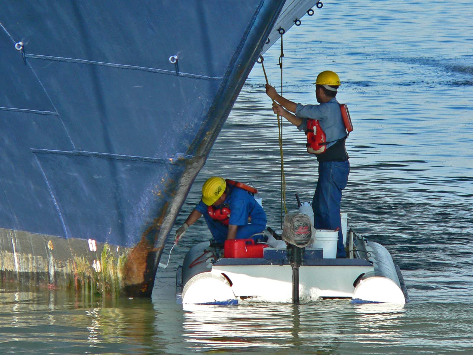 Photo of workers cleaning the hull of cruise ship Mercury at Mazatlan